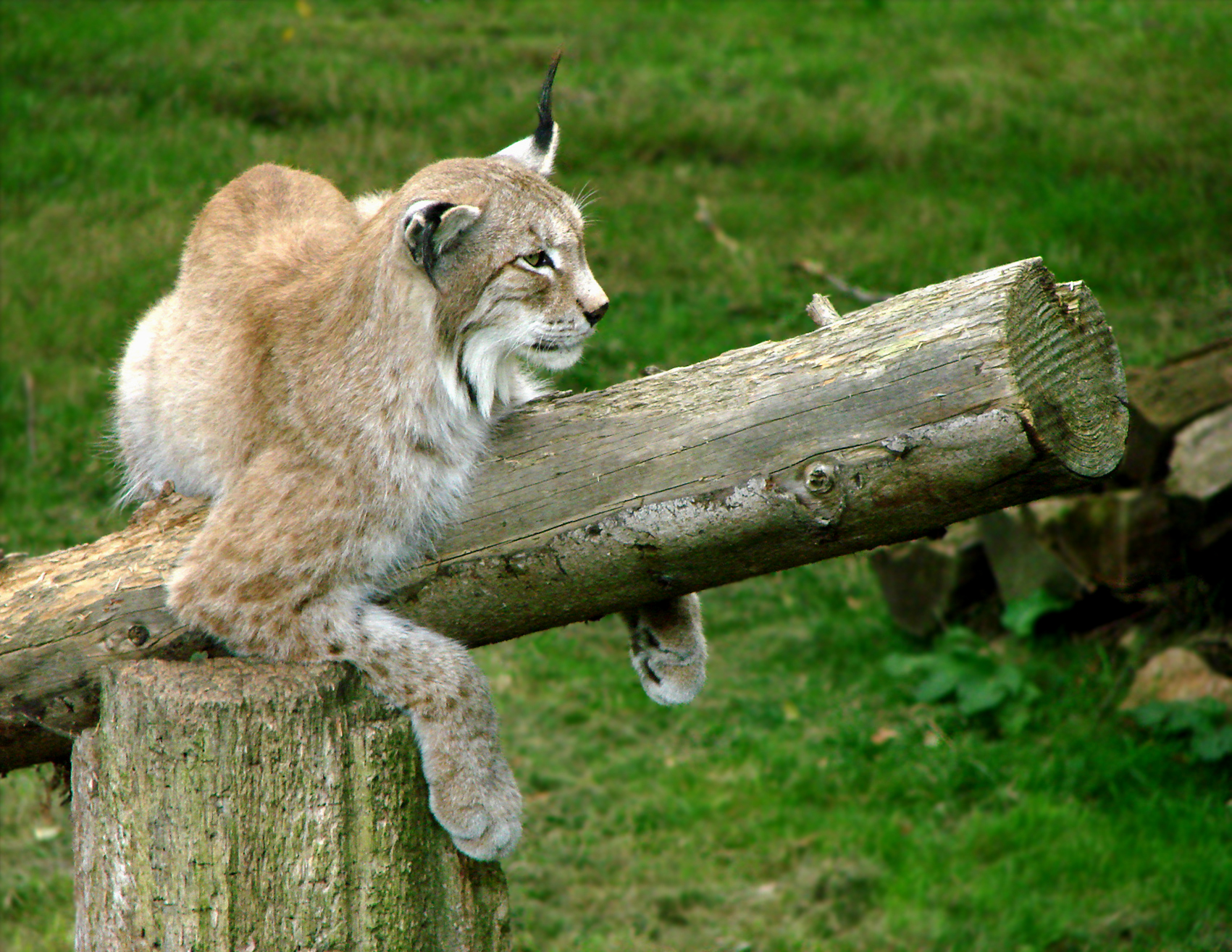 European lynx (Lynx lynx wrangeli). Thoiry Zoo.